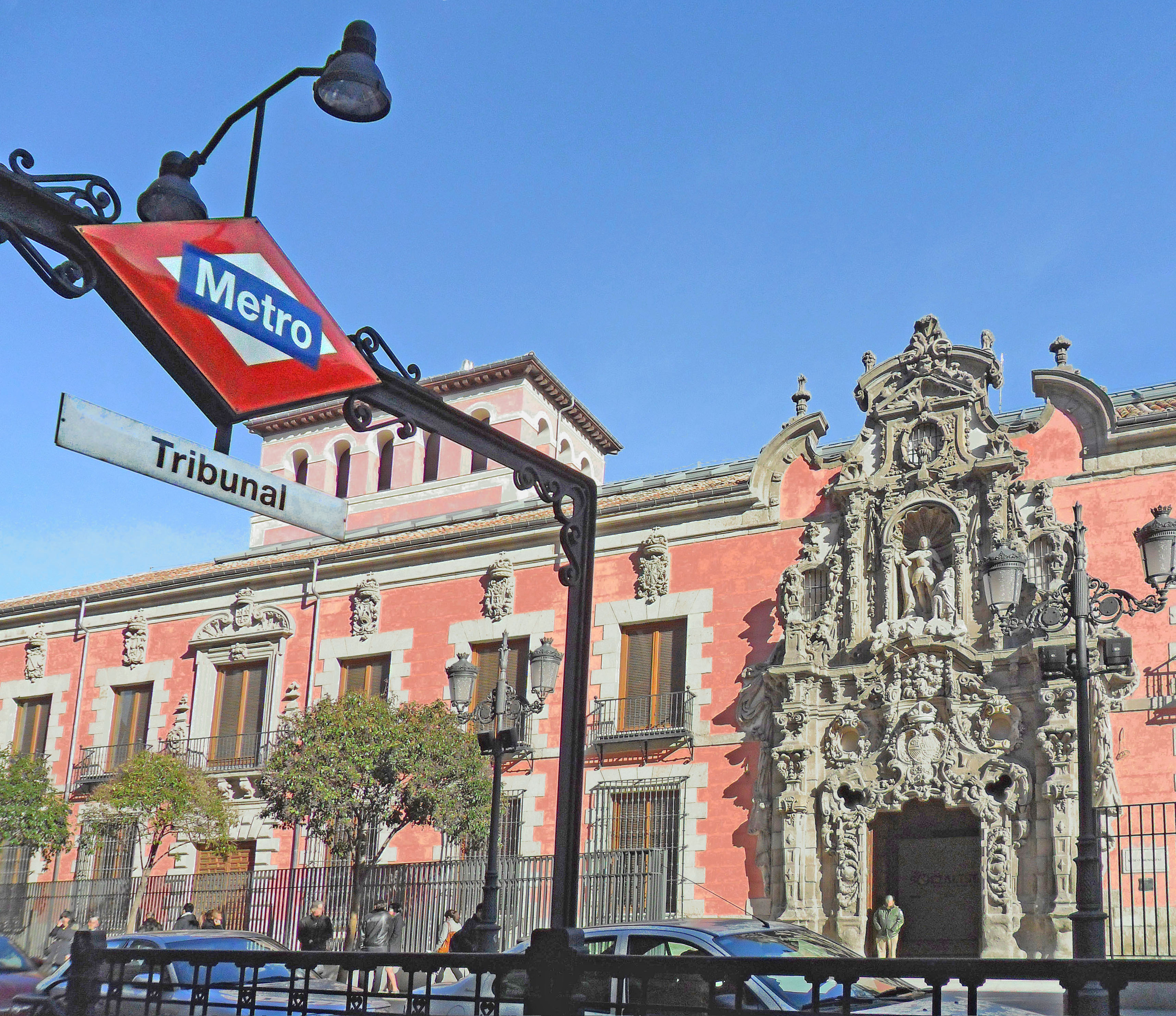 Entrance to Tribunal metro station in Madrid (Spain), at 81 Calle de Fuencarral (street) in Centro district. Background: History Museum.